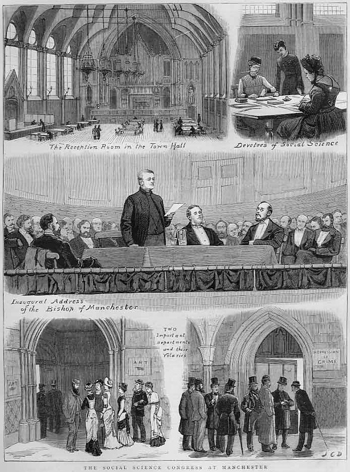 Engraving of the 1879 Social Science Congress, Manchester, England, from The Graphic.